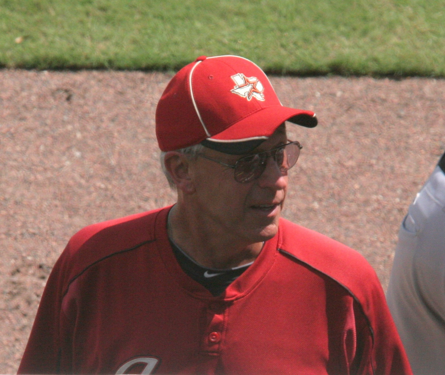 Jon Matlack, Houston Astros coach and former MLB pitcher.